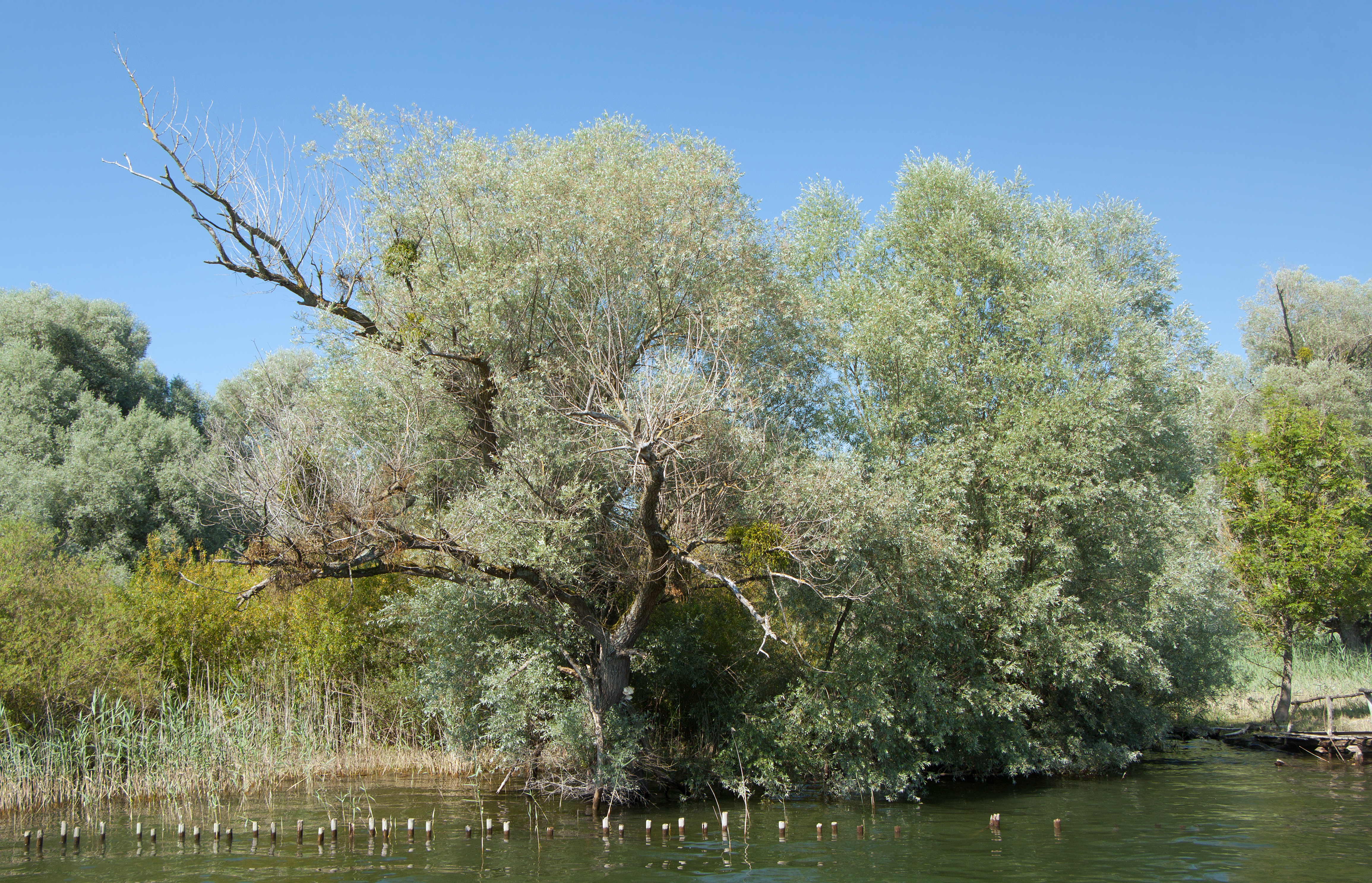 White Willow, habitus; Uhldingen-Mühlhofen, Lake Constance, Germany.